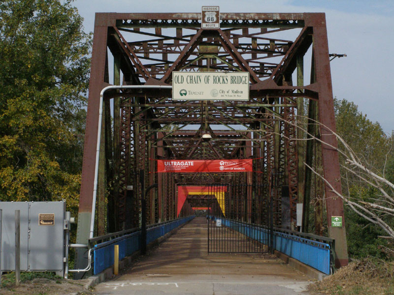 photo of entrance to Chain of Rocks bridge, from the Illinois side - taken using personal camera on trip to the bridge September 2006